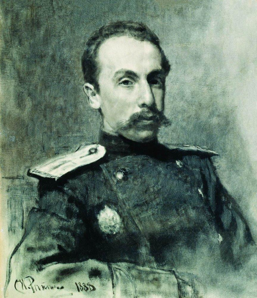 Portrait of writer Alexander Vladimirovich Zhirkevich. Oil on canvas. 60 × 51 cm. Art Museum, Ulianovsk.